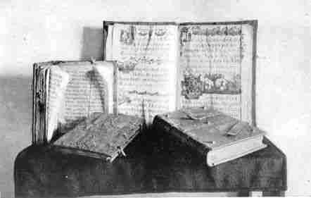 Illuminated choir missals and other books at Mission San Luis Rey. Scanned from The Old Franciscan Missions Of California by George Wharton James (1913), p. 215.